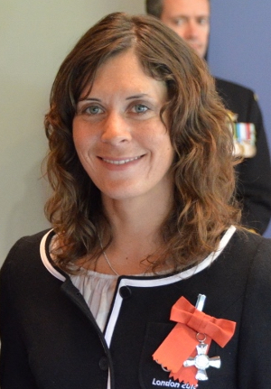 Jo Aleh, of Auckland, after her investiture as a Member of the New Zealand Order of Merit, for services to sailing, on 6 May 2015